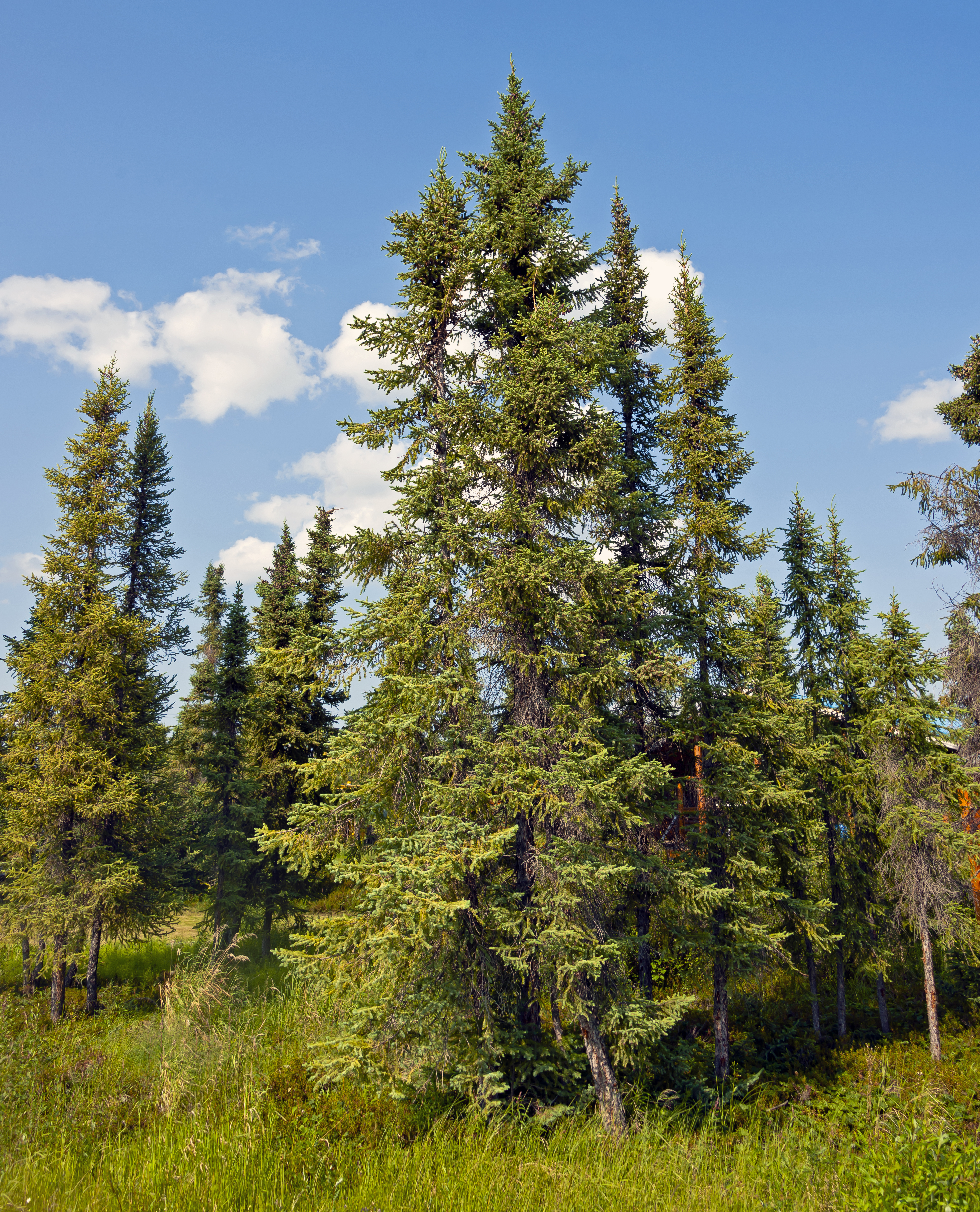 Stand of black spruce at the Arctic Chalet south of Inuvik, NT, Canada.